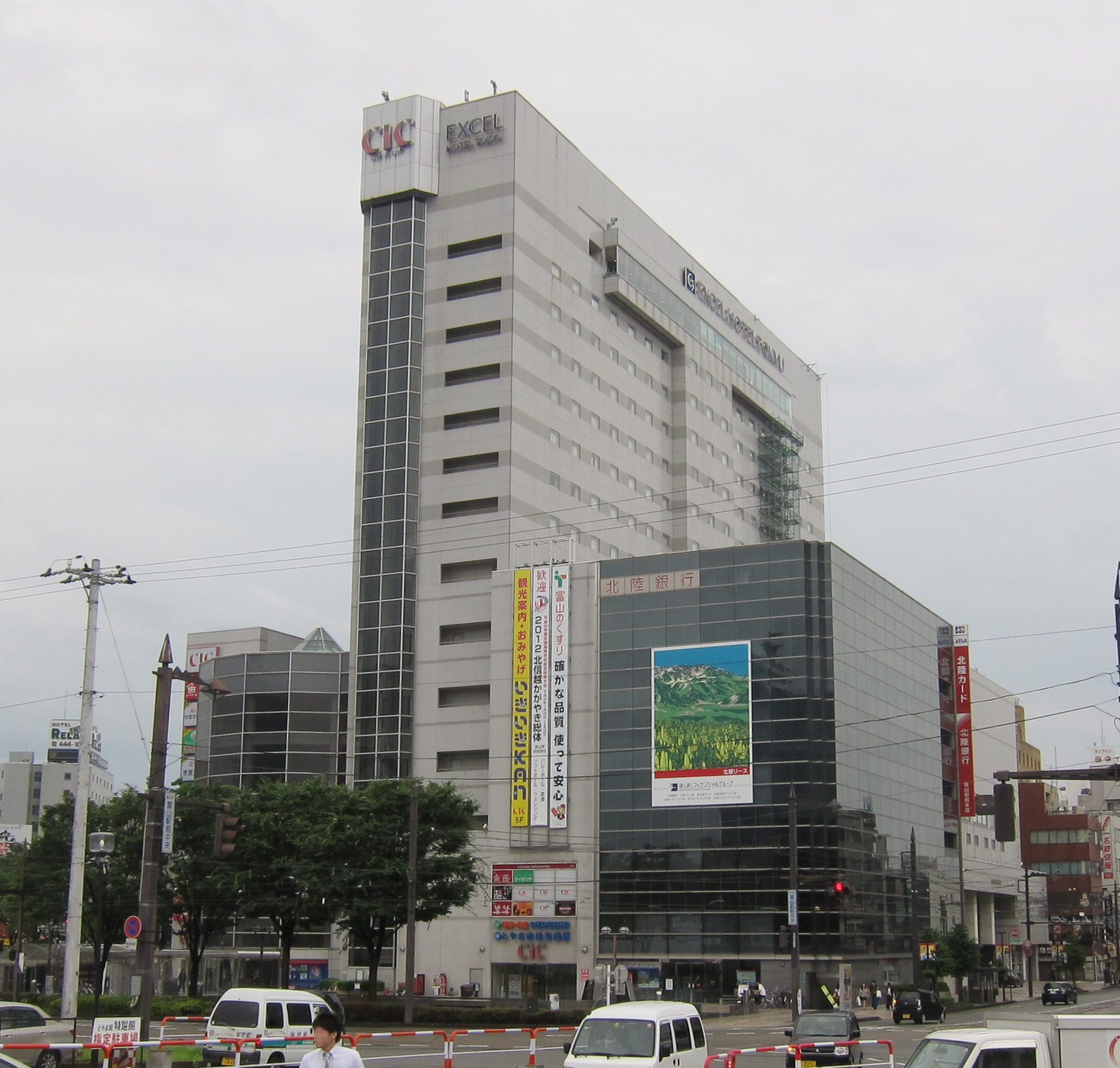 CiC